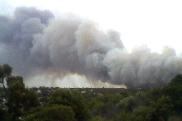 Shot of bushfire on 23 December 2009 at Port Lincoln, South Australia